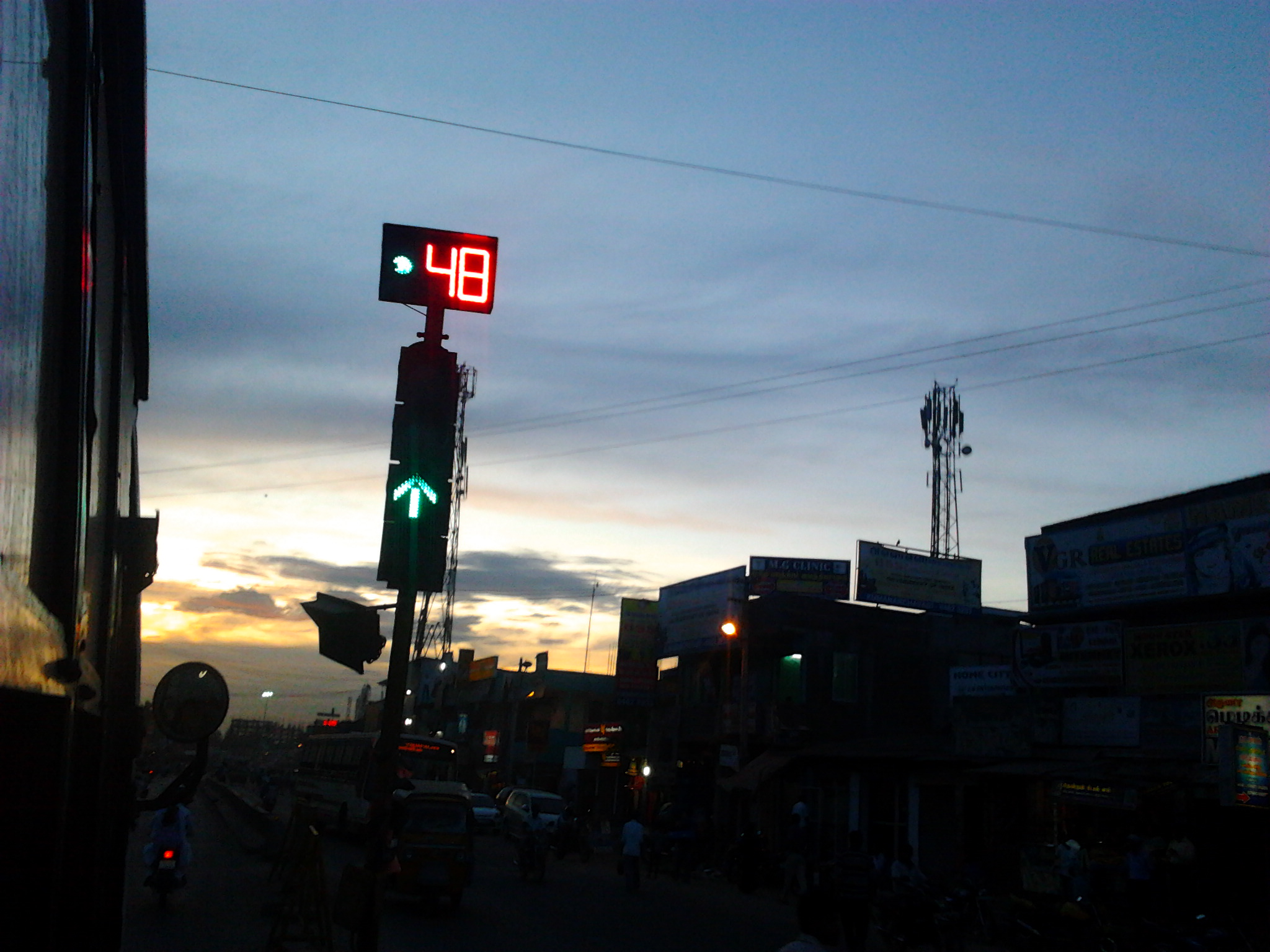 Photoed using Samsung Wave 525.